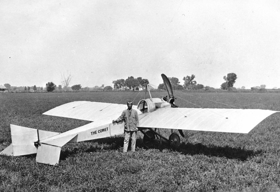 Clyde Cessna poses with his first aircraft, "The Comet".